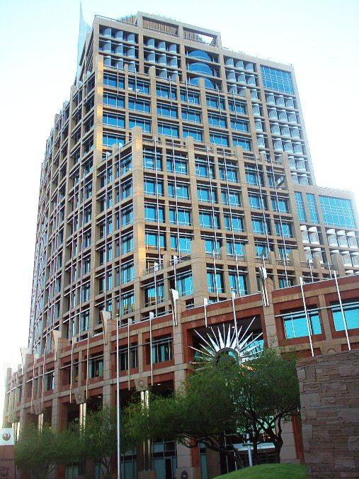 Phoenix City Hall Tower, Phoenix, Arizona